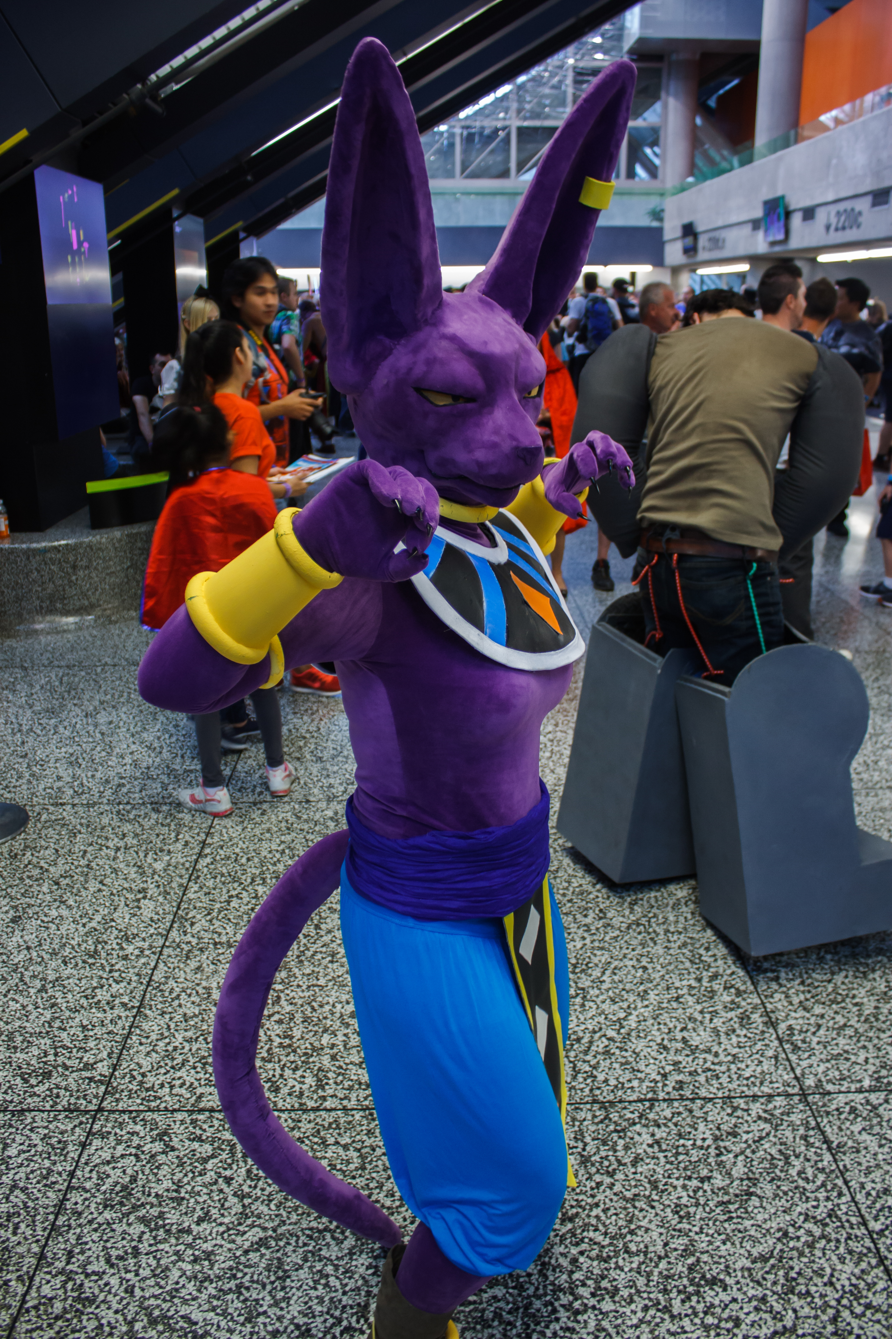 Cosplay on Saturday, day two, of the Montreal Comiccon 2016.